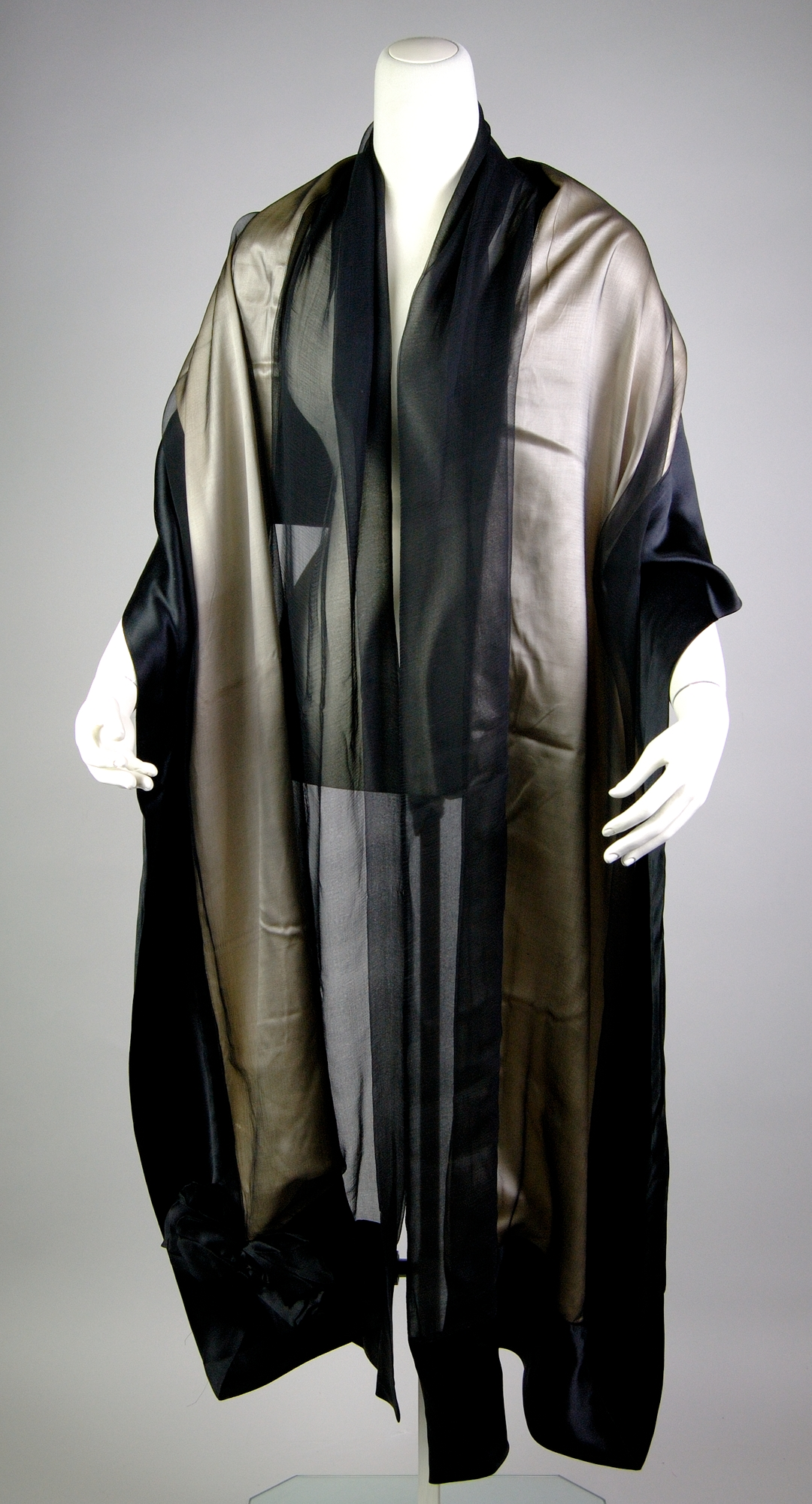 1920s black silk stole, designed by Paquin